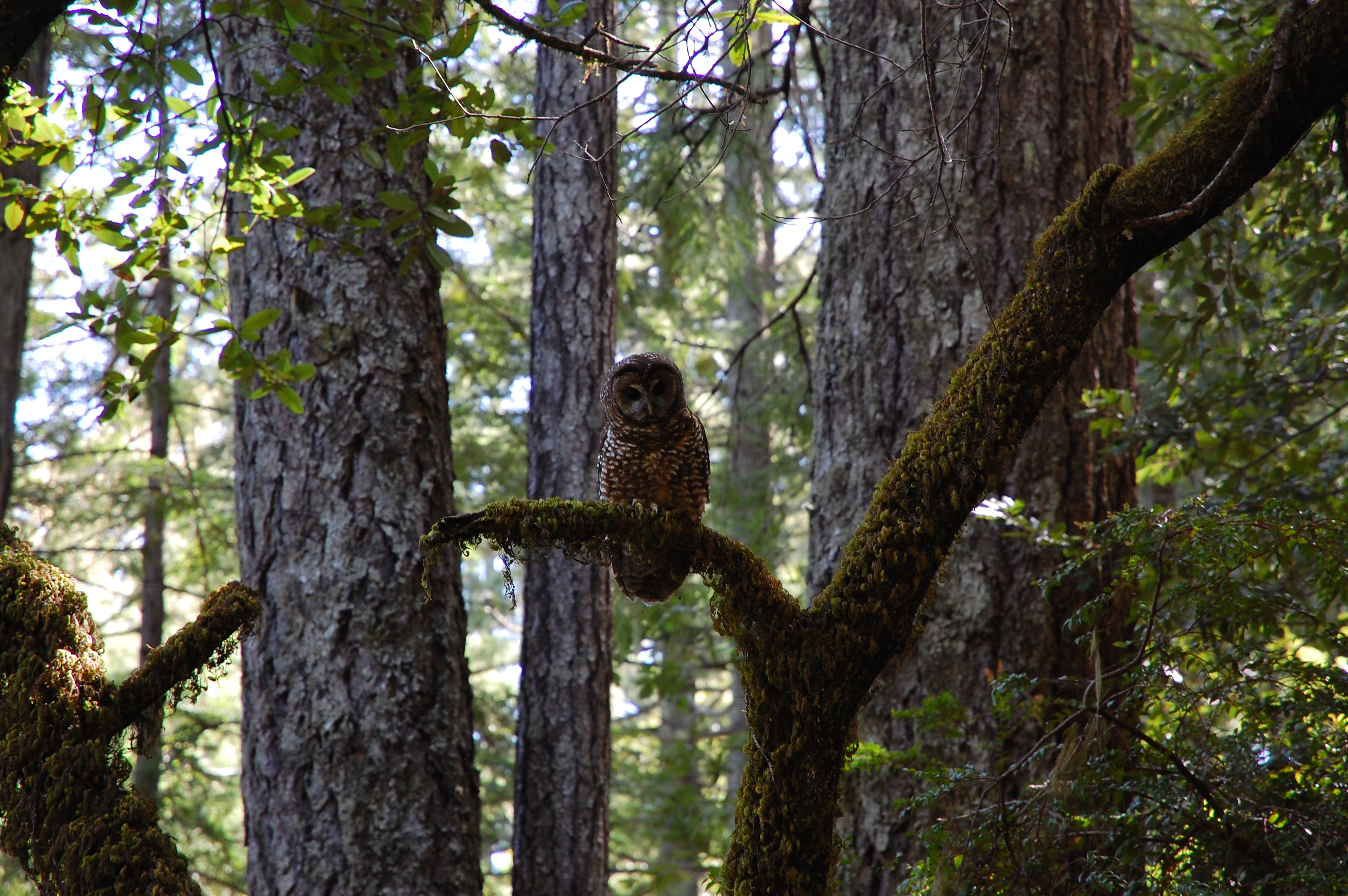 Spotted Owl, Humboldt Redwoods Park, California. They were just sitting there on the branch watching us.